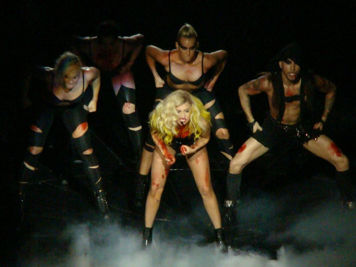 Lady Gaga performing at the Monster Ball in Vancouver, British Columbia Canada